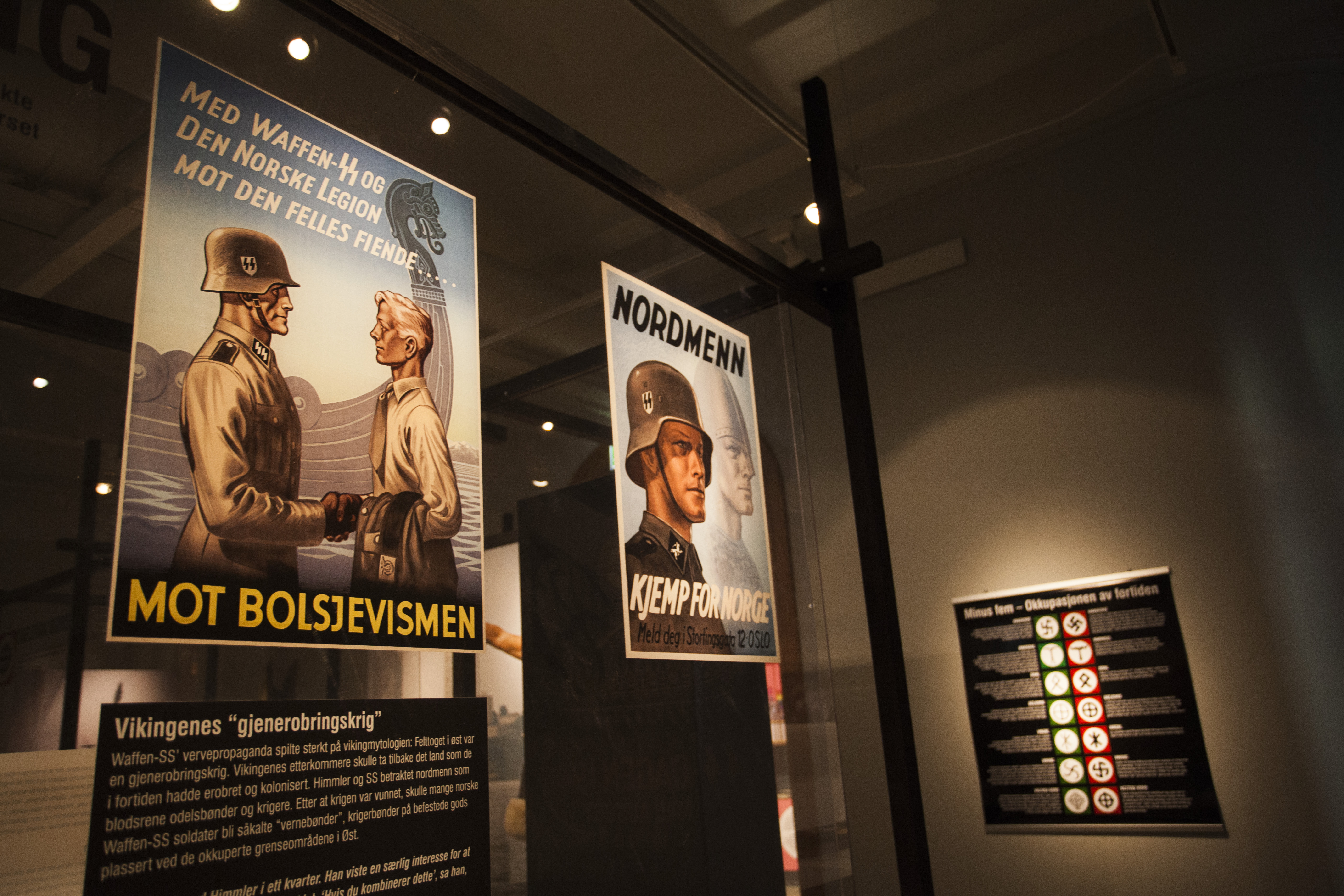 Norwegian World War 2 Nazi propaganda posters by Harald Damsleth for Nasjonal Samling. From the exhibition "JA VI ELSKER FRIHET / MINUS FEM" at Museum of Cultural History, Oslo, Norway May 16th – Dec 31st 2014. Exhibition curators: Lill-Ann Chepstow-Lusty and Terje Emberland from Center for Studies of the Holocaust and Religious Minorities. Photo by Lill-Ann Chepstow-Lusty. OLYMPUS DIGITAL CAMERA